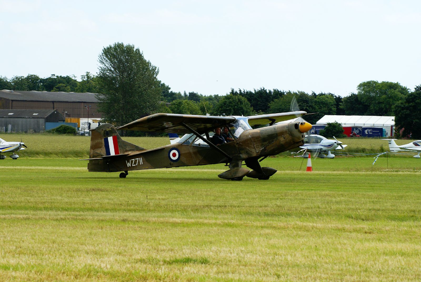 Rougham airstrip. Wings Wheels and Steam Country Fair. Rougham, Bury St Edmunds, Suffolk. (Auster AOP 11, modified AOP 9 with a change of engine)